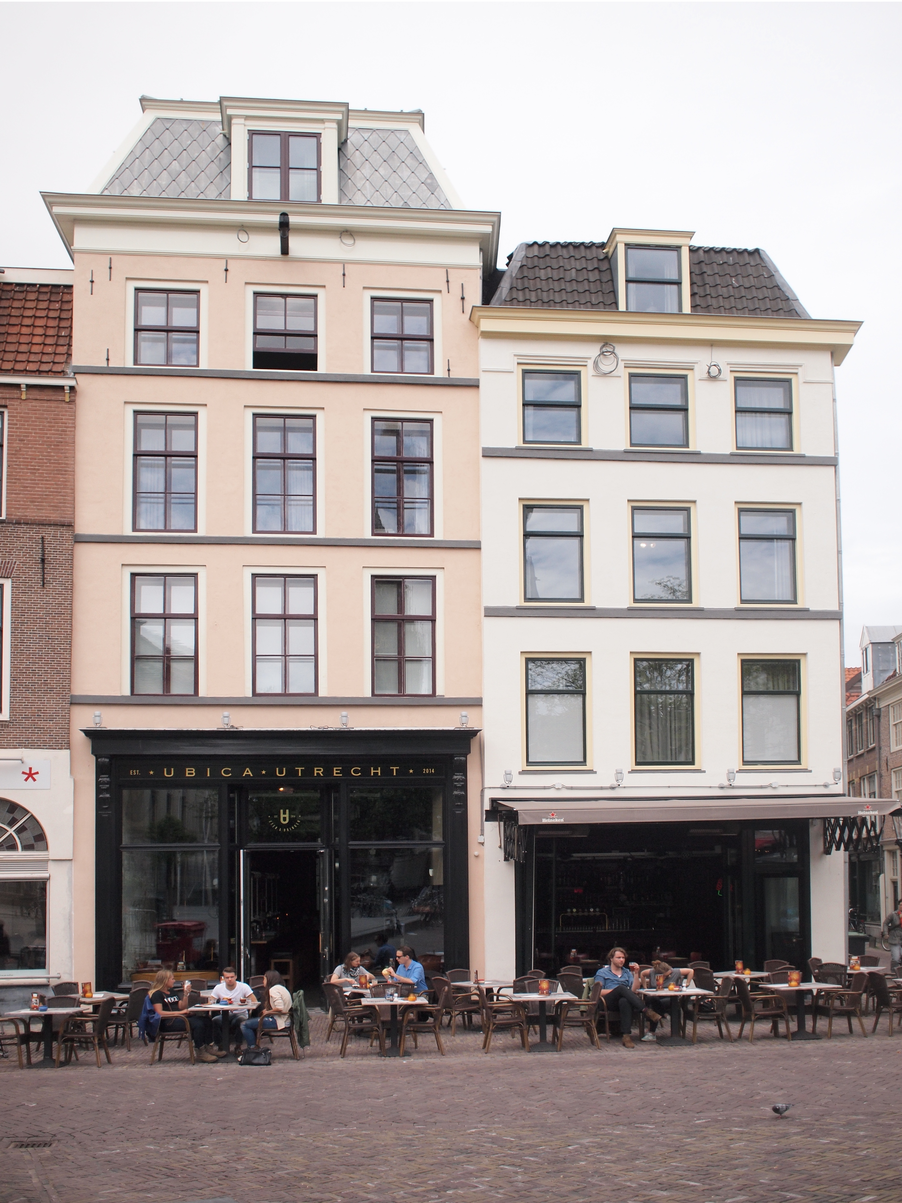 Ubica, Utrecht, Netherlands in 2015. Rechts nr 26 is een Gemeentelijk monument, links nr 24 is een Rijksmonument nr 24